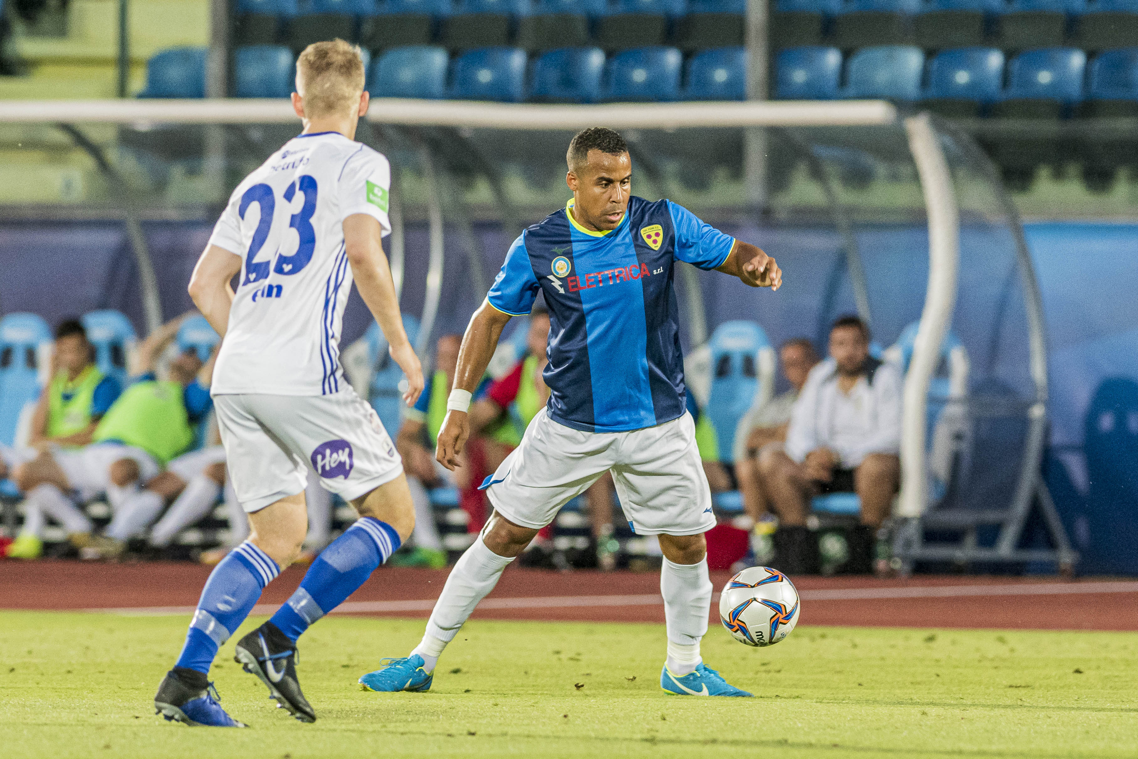 San Marino Stadium,Qualificazioni Europa LeagueTre Fiori Vs Ki KlaksvikPh©FPF/Filippo Pruccoli